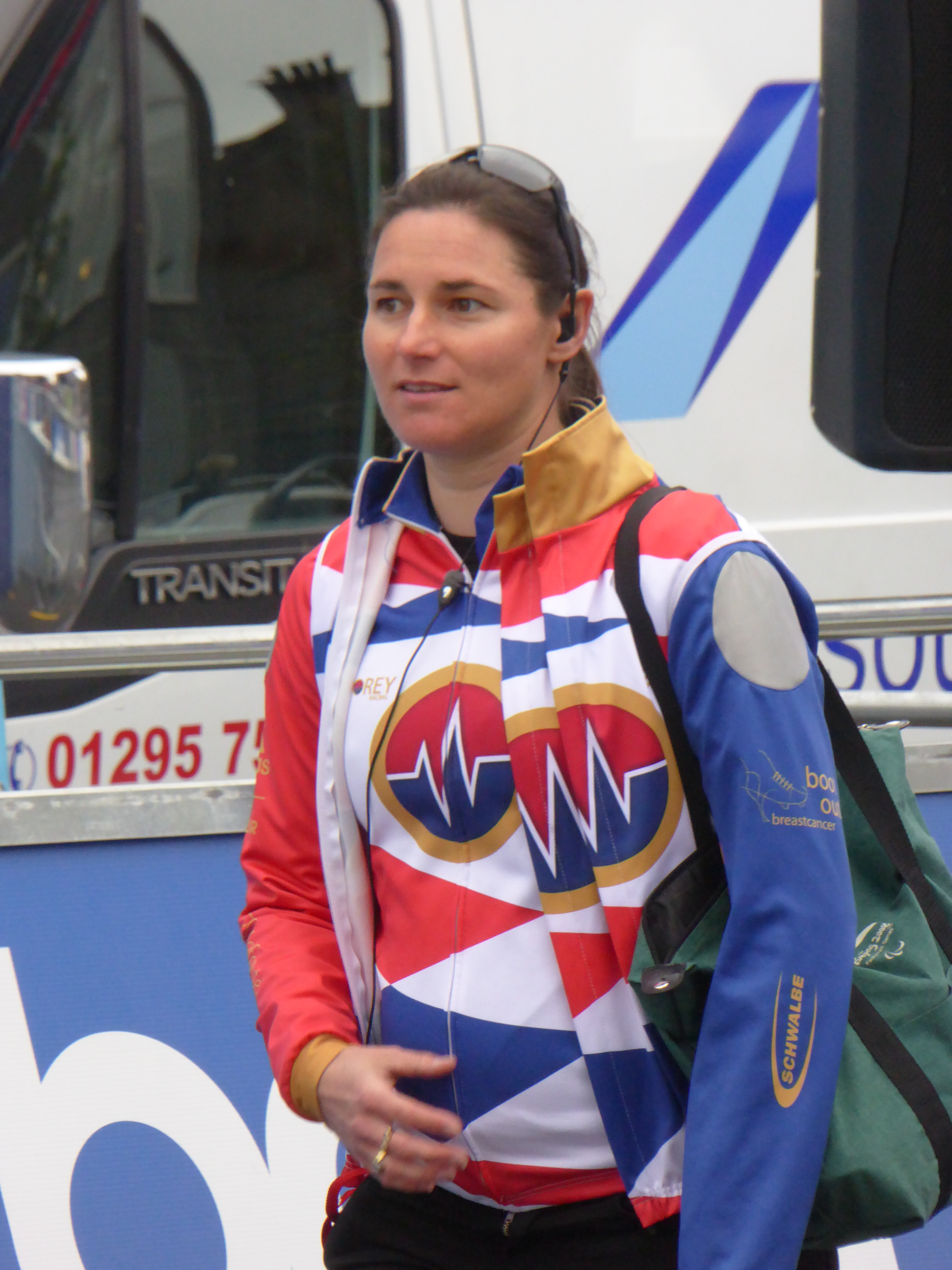 Sarah Storey (Storey Racing), prior to Round 7 of the Matrix Fitness GP Series in Motherwell, on 23 May 2017.